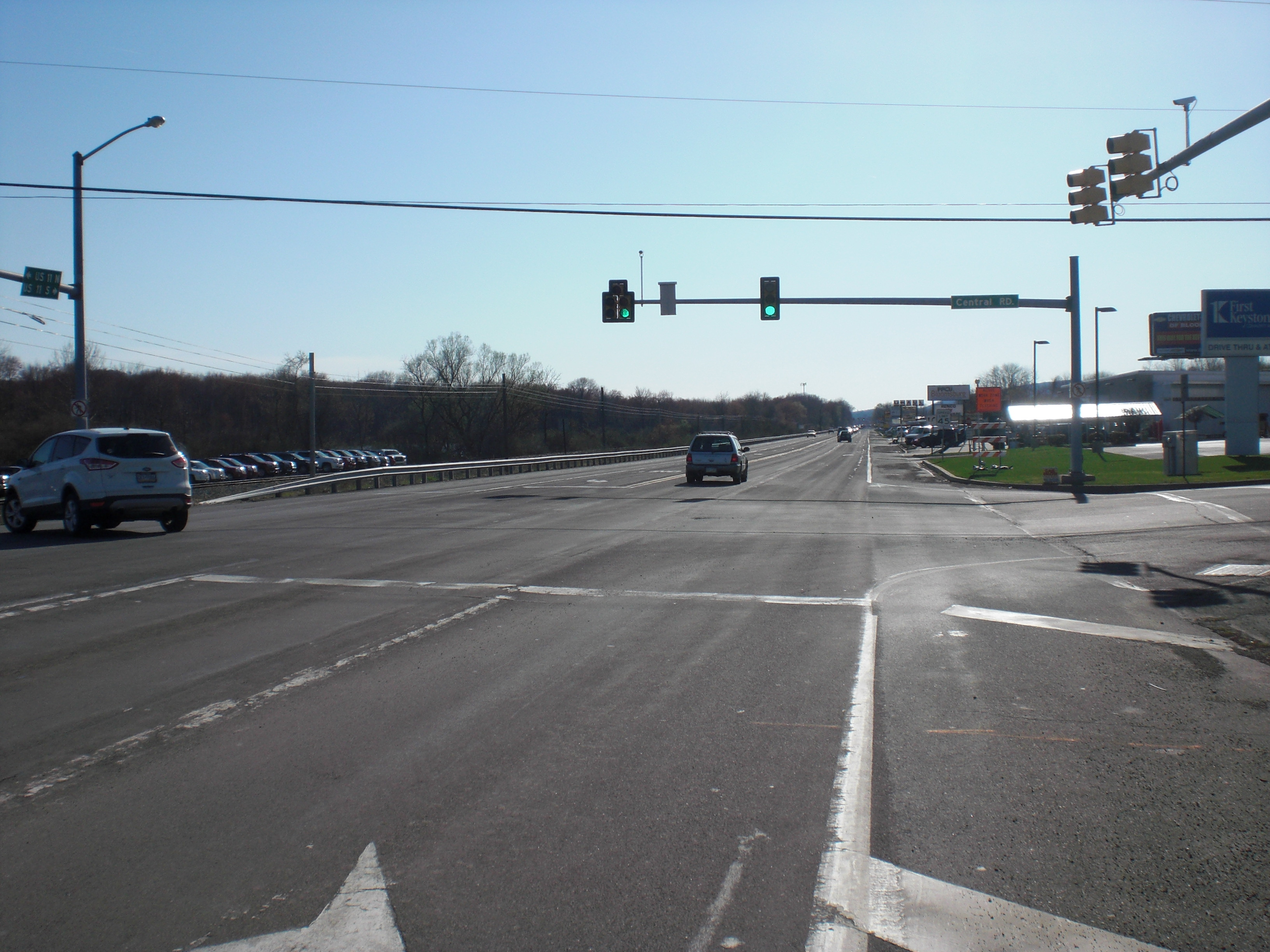 U.S. Route 11 in Scott Township